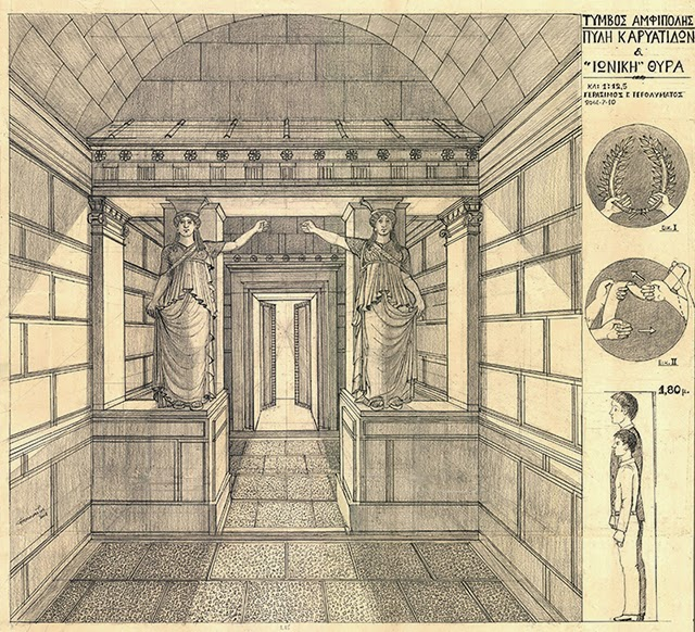 Illustration of Caryatids according to findings